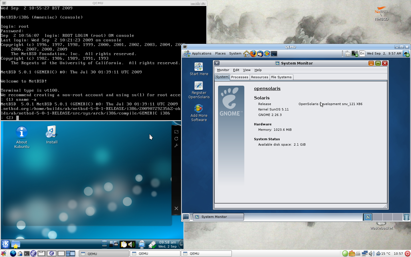 KVM running Opensolaris, NetBSD and Kubuntu in an Arch Linux host.